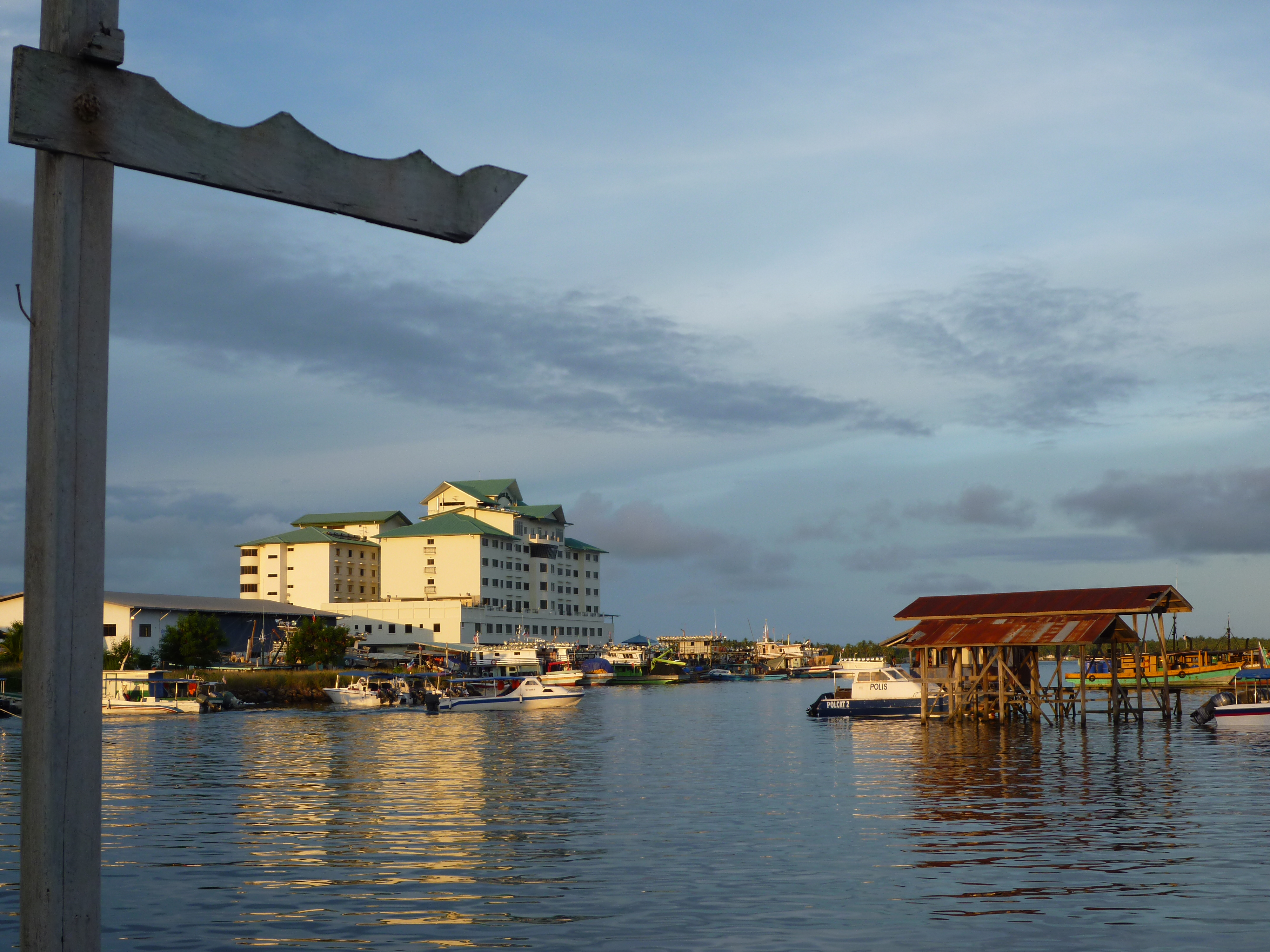 Semporna. Semporna Waterfront, Semporna.